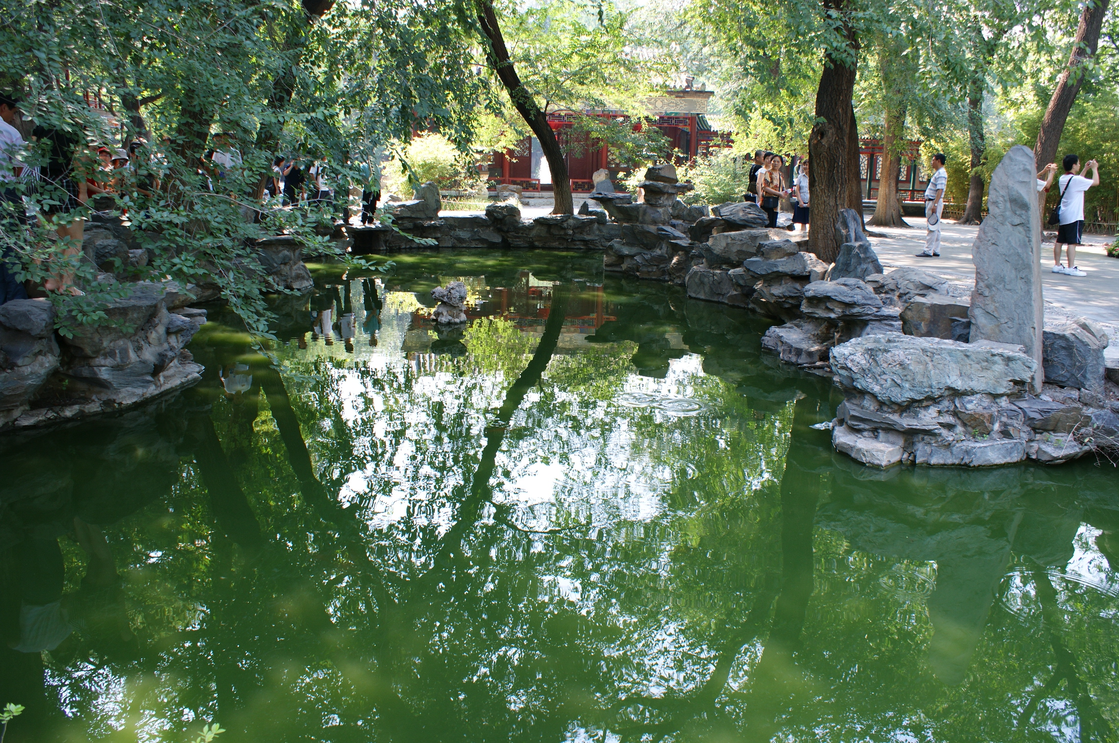 The Gong Wang Fu (Prince Gong Mansion) in Beijing